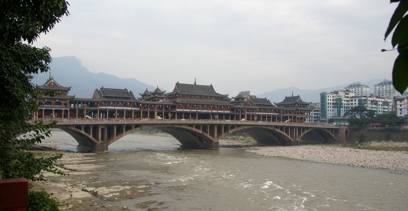 A view of the ancient bridge in Ya'an city, Sichuan Province, China